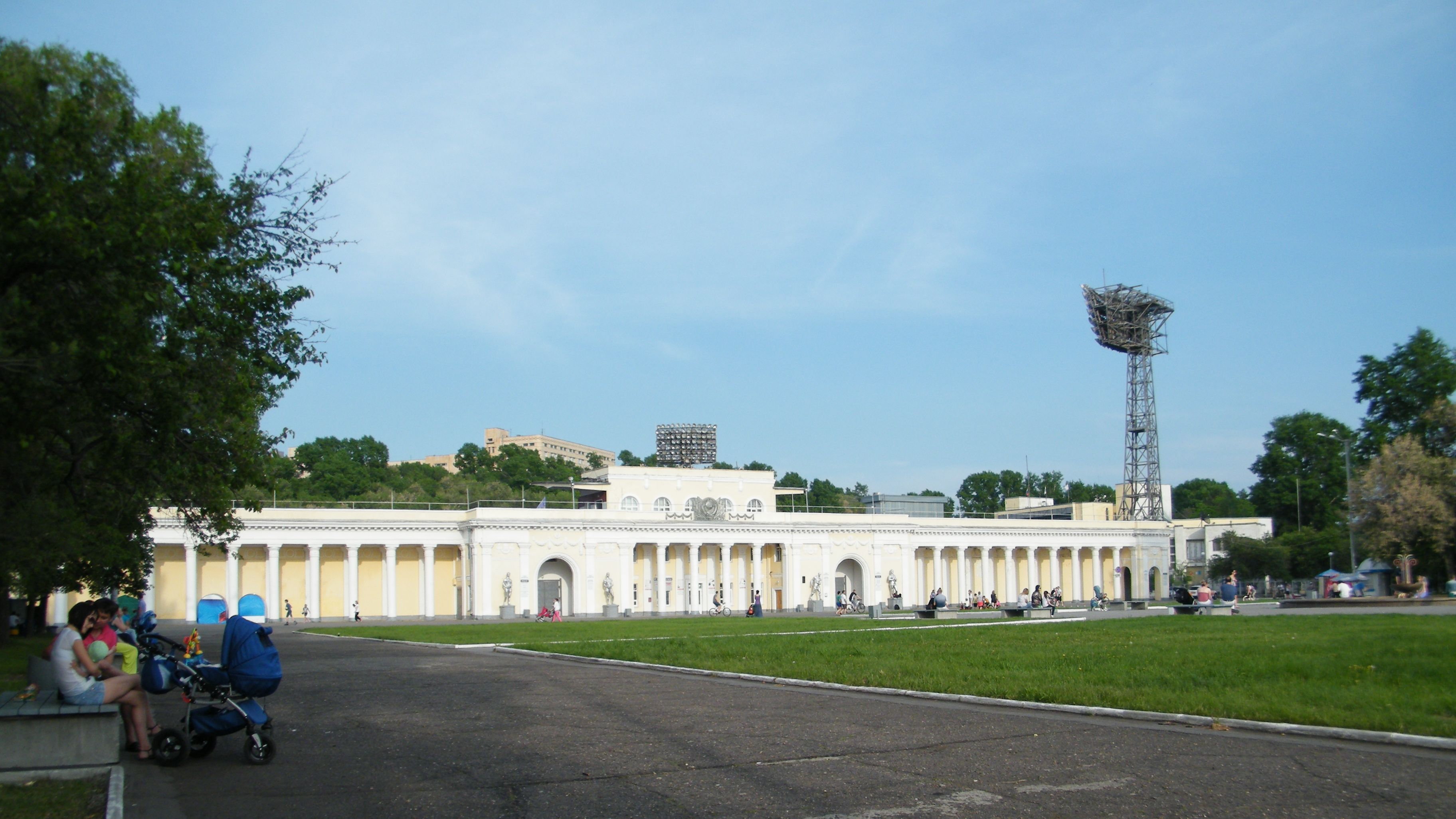 Стадион им Ленина, 155 лет Хабаровску ещё одно фото